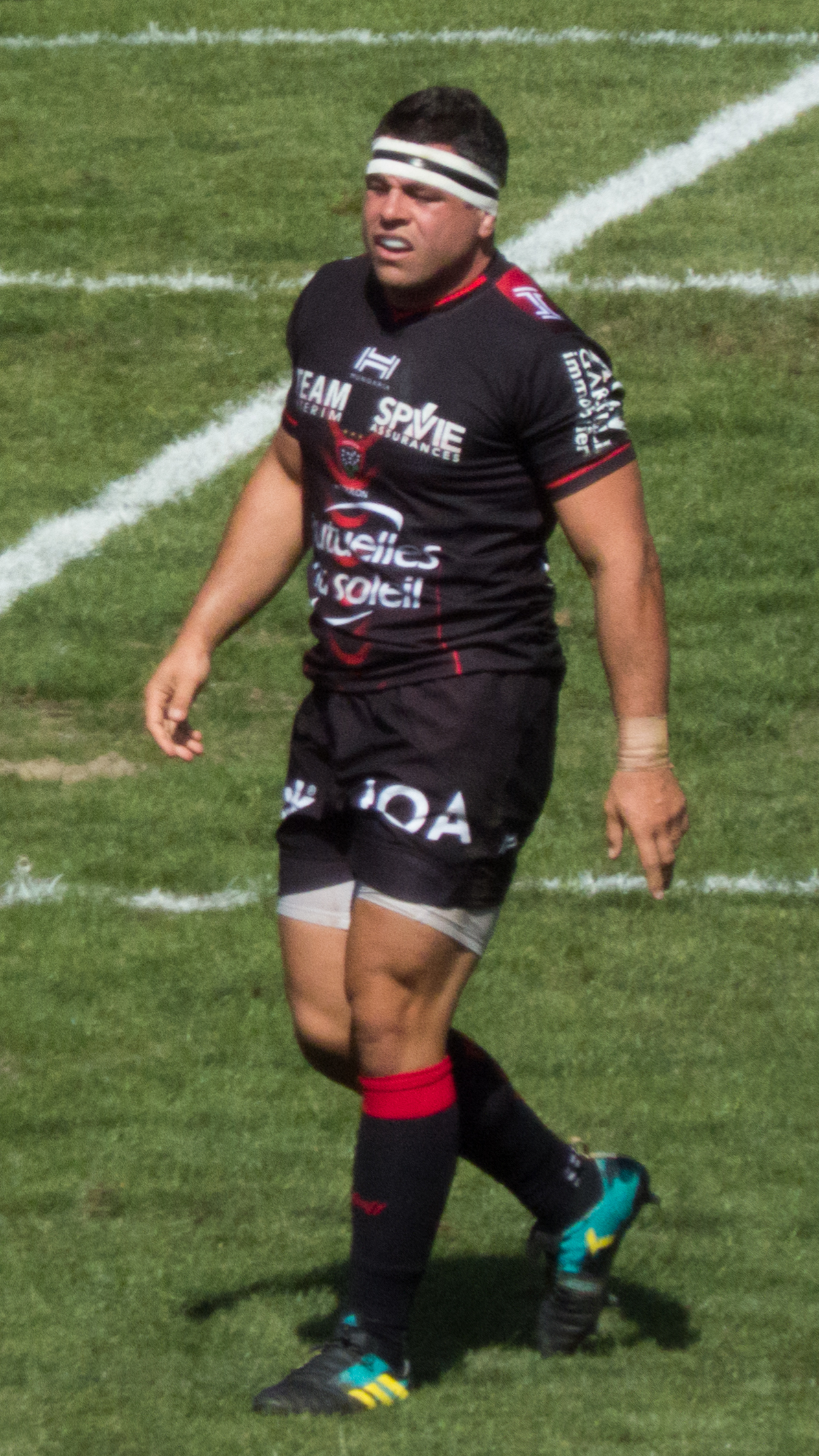 2018–19 Top 14 season — 1 September 2018, Stade du Hameau. Match between: Section Paloise — RC Toulonnais